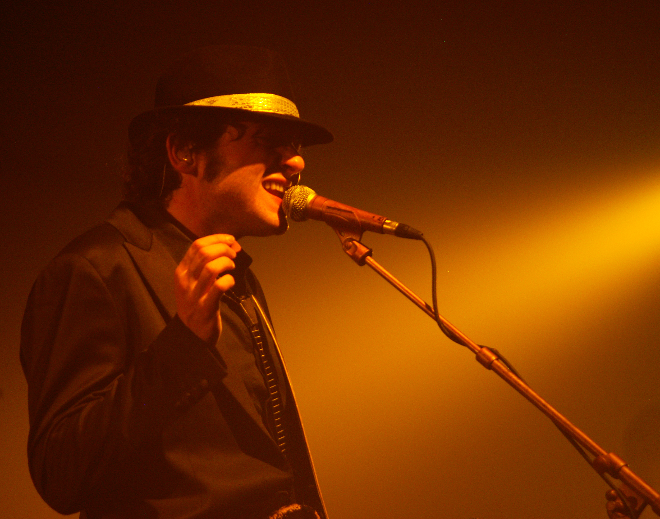 Matthieu Chedid during Vanessa Paradis live performance at Châteauroux (France).